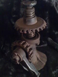 Antique locomotive screw jack.